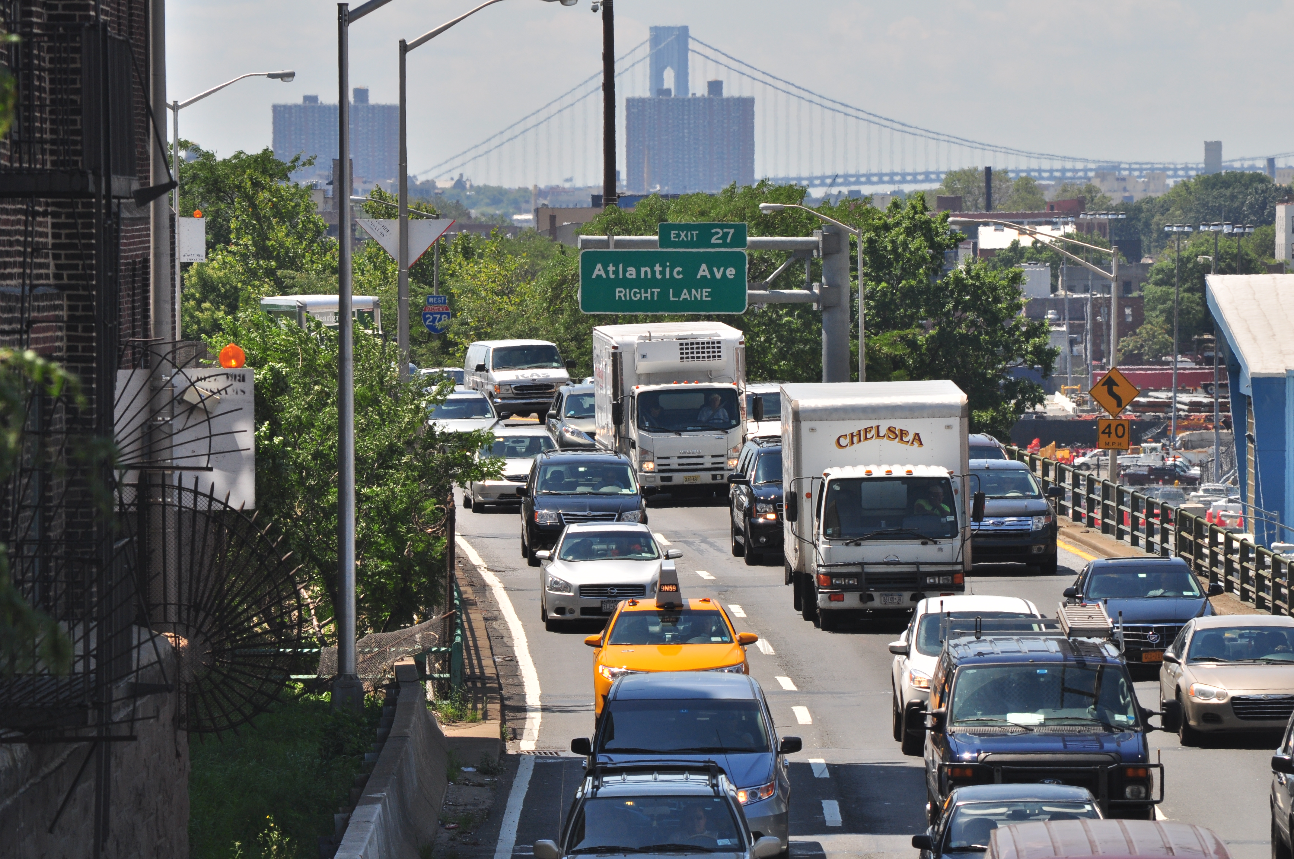 Brooklyn Queens Expressway seen from the end of the Brooklyn Heights Promenade, Brooklyn, New York; Verrazano-Narrows Bridge in background.